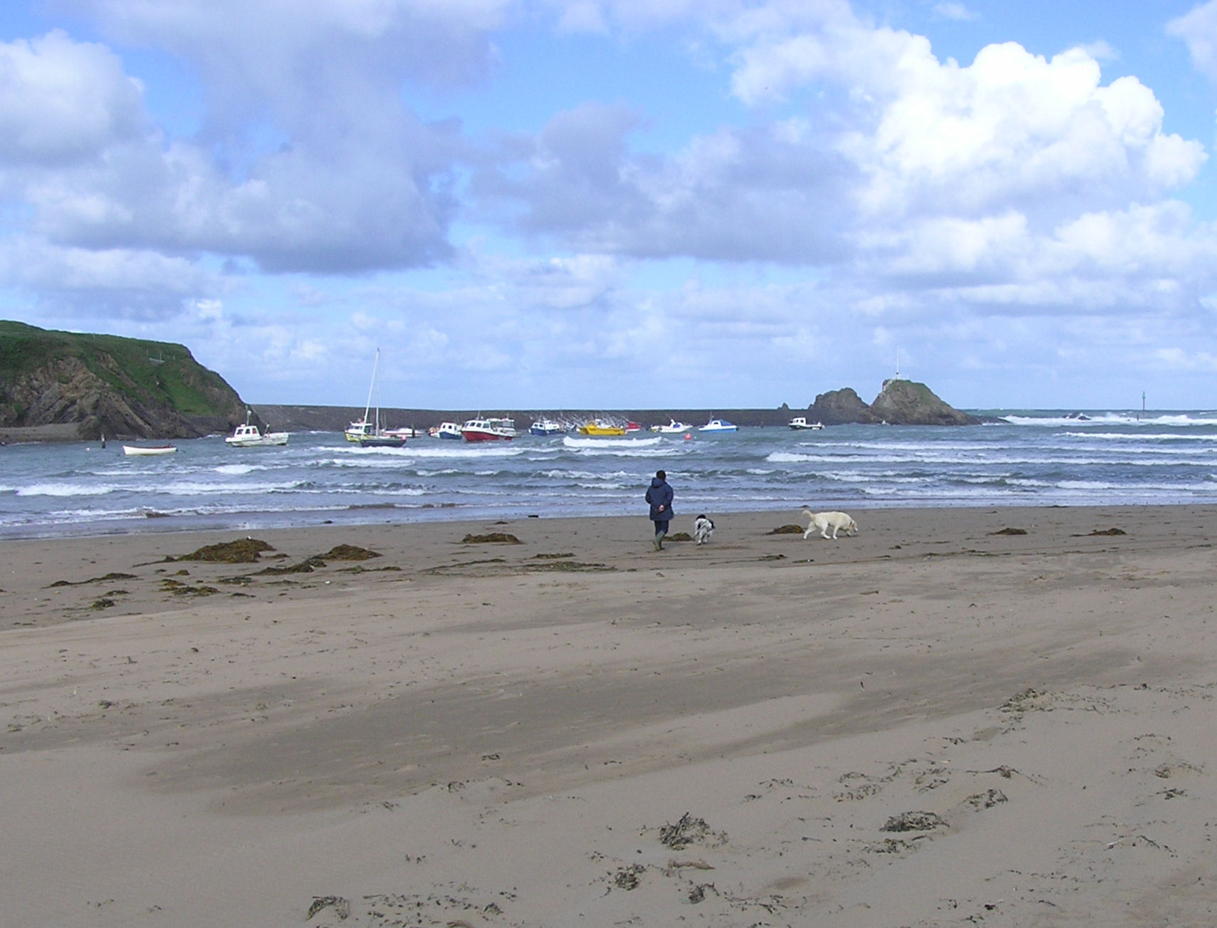 Bude outer harbour and beach August 2007